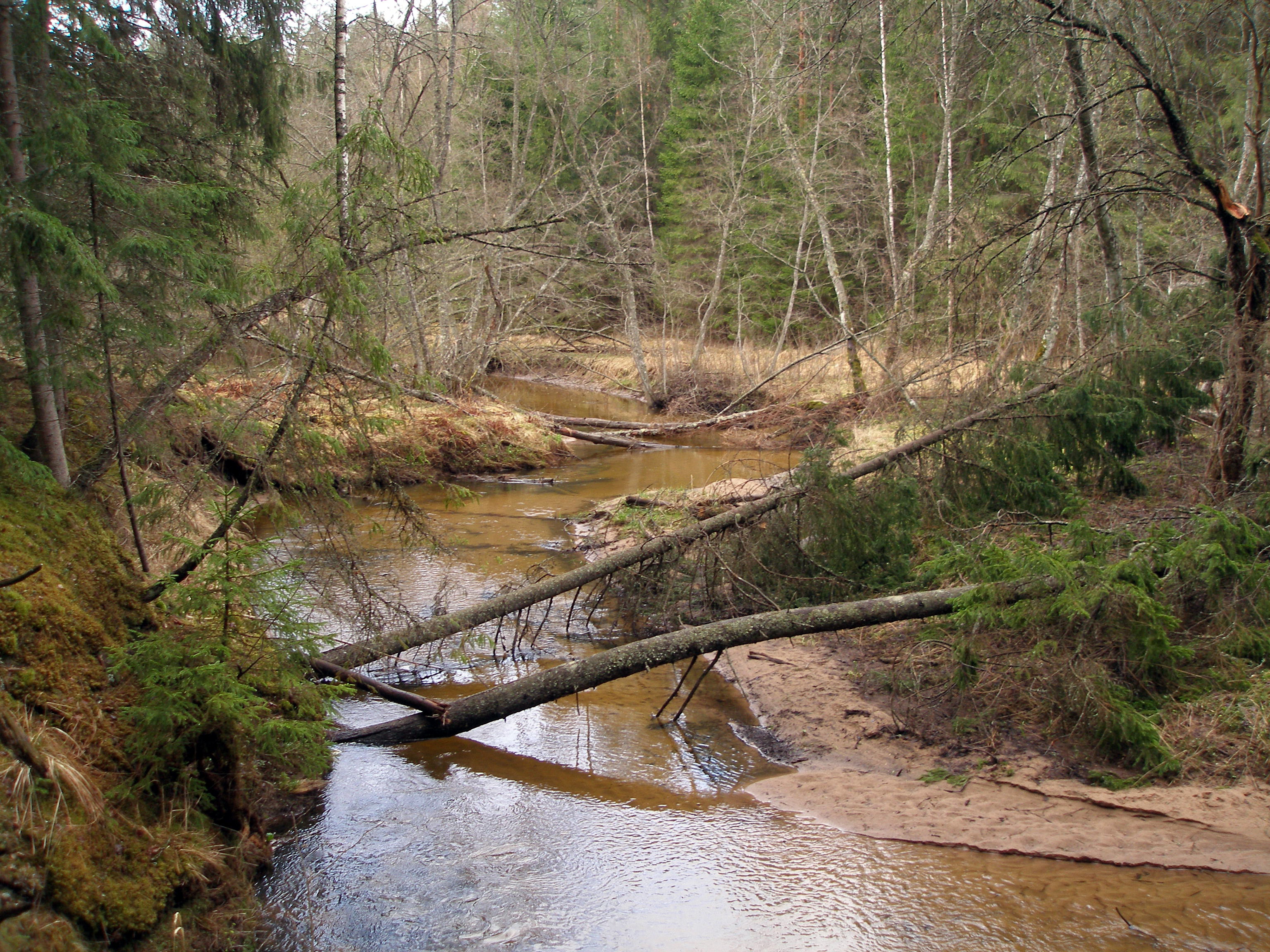 Rõuge River, southern Estonia